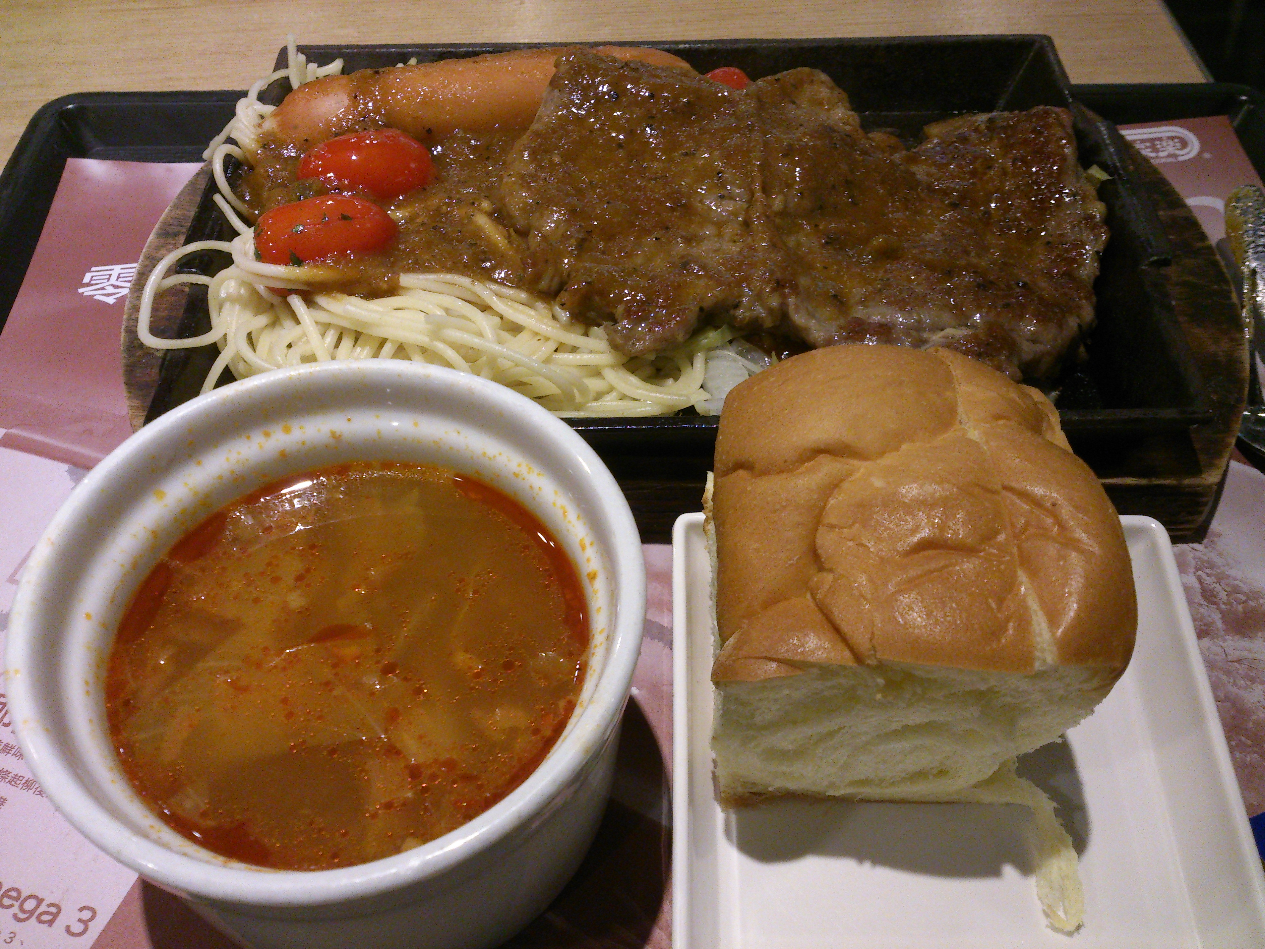 Sizzling Plate Dinner Set (Beef Sirloin Steak, Pork Sausage, Spaghetti, Tomato in Black Pepper Sauce) with Soup (Borscht) and Bun